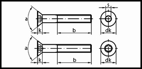 Steel screw ISO 10642